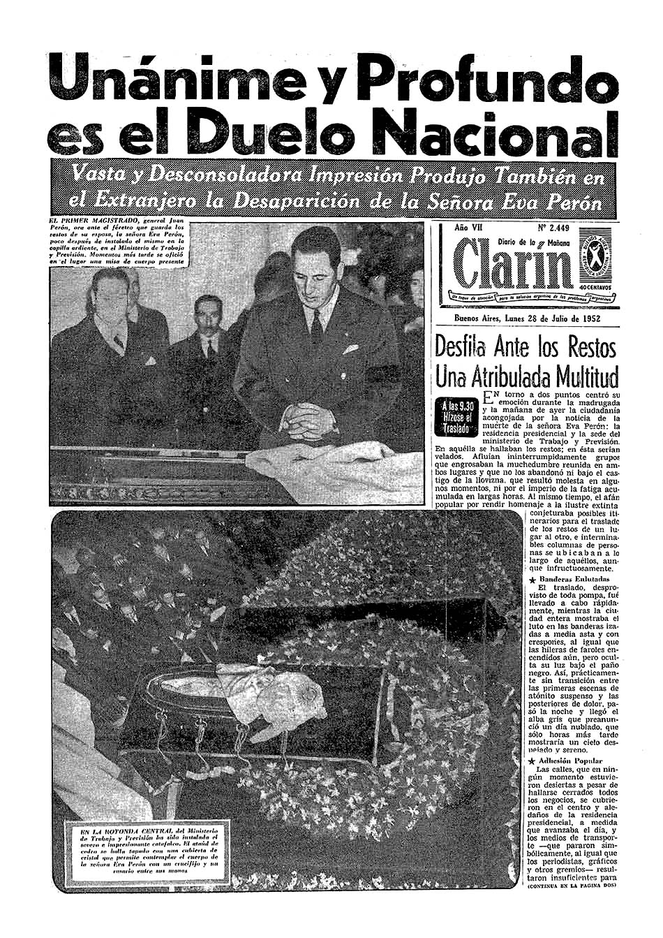 Cover of Clarín newspaper for the death of Eva Perón.